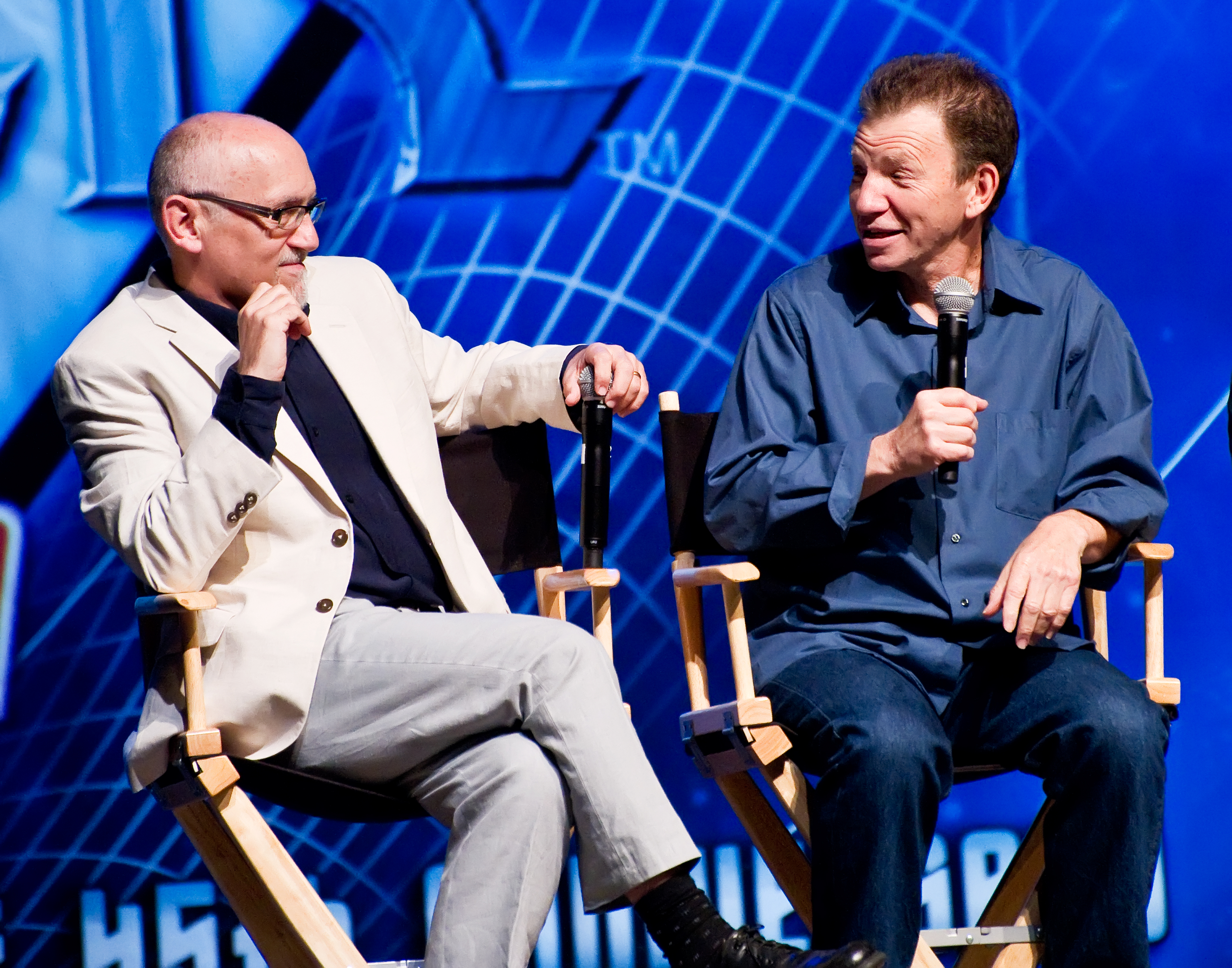 Armin Shimerman and Max Grodénchik at the Star Trek convention in Las Vegas in 2011.